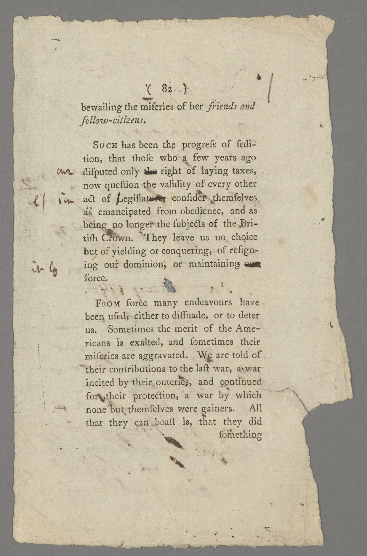 Annotated proofs for Taxation No Tyranny [1775 ca. Mar. 1] by Samuel Johnson (1709-1794). Samuel Johnson manuscripts, MS Hyde 50 (59), Houghton Library, Harvard University